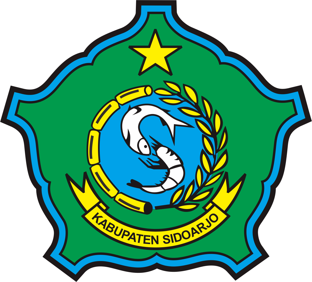 Coat of Arms of Sidoarjo Regency, East Java province, Indonesia